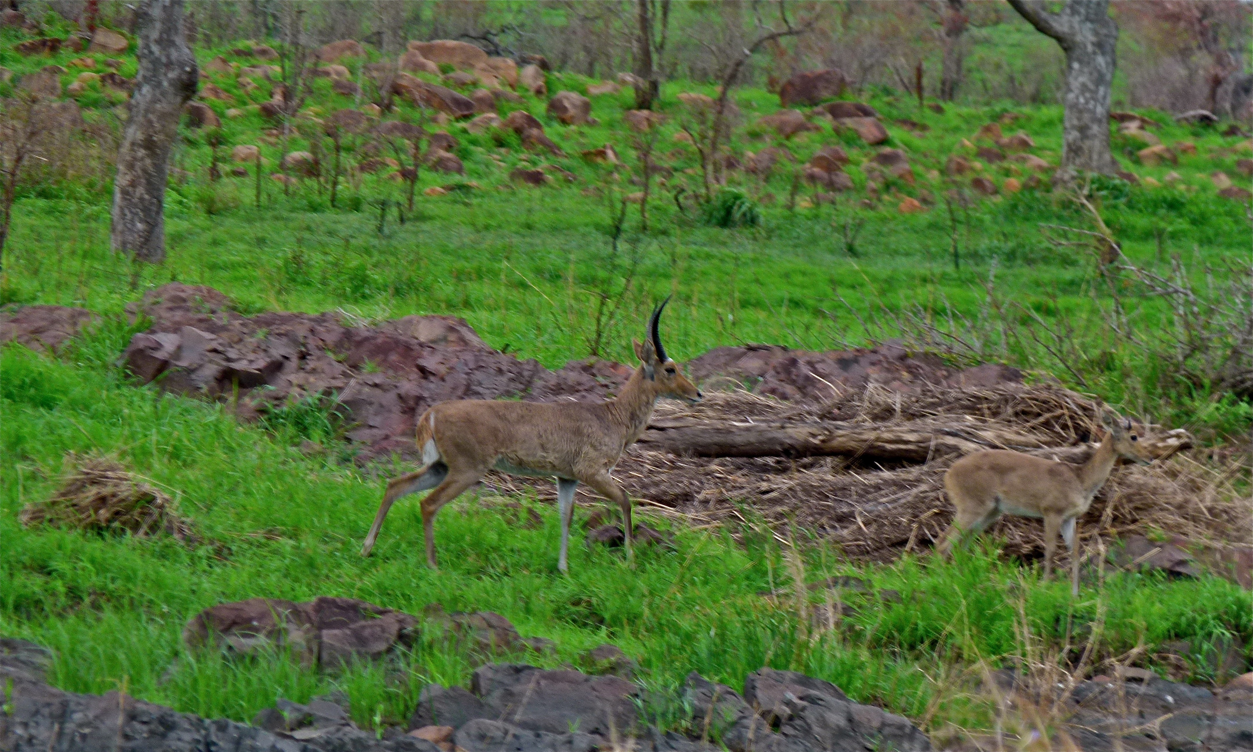 S128 North of Lower Sabie, Kruger NP, SOUTH AFRICA